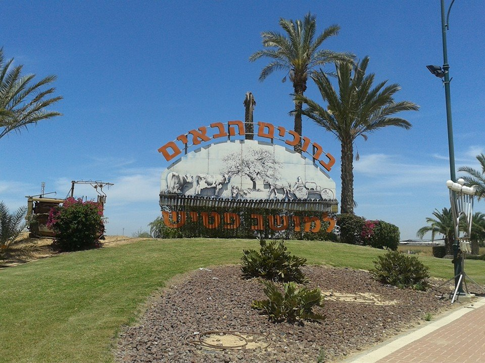 Flowers at the entrance to the village Patish, northern Negev, Israel